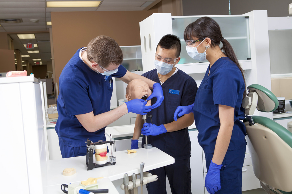 Denturist Students work on simulating denture intraoral procedures in their class room at NAIT